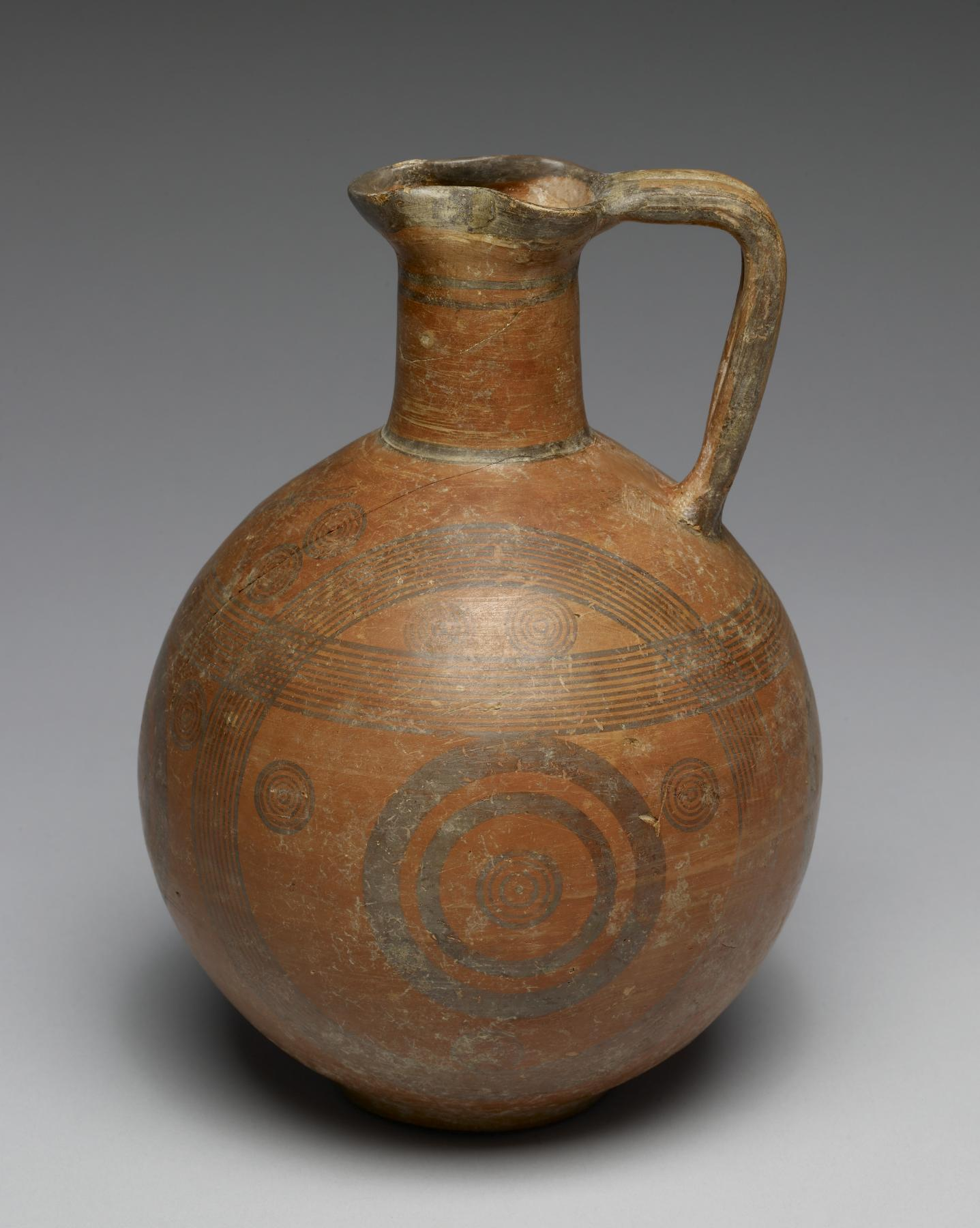 Small and portable, these jugs have been found throughout the lands surrounding Cyprus. Called Black-on-Red Ware, this attractive ceramic type comprises mostly small jugs. The red-brown slip has a polished, lustrous surface with simple geometric designs painted in black. The decoration of this pottery follows the "circle" style of the Bichrome Ware jugs.